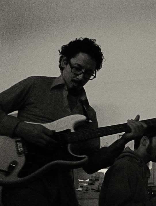 Skateboarder Tommy Guerrero playing guitar on July 5, 2007